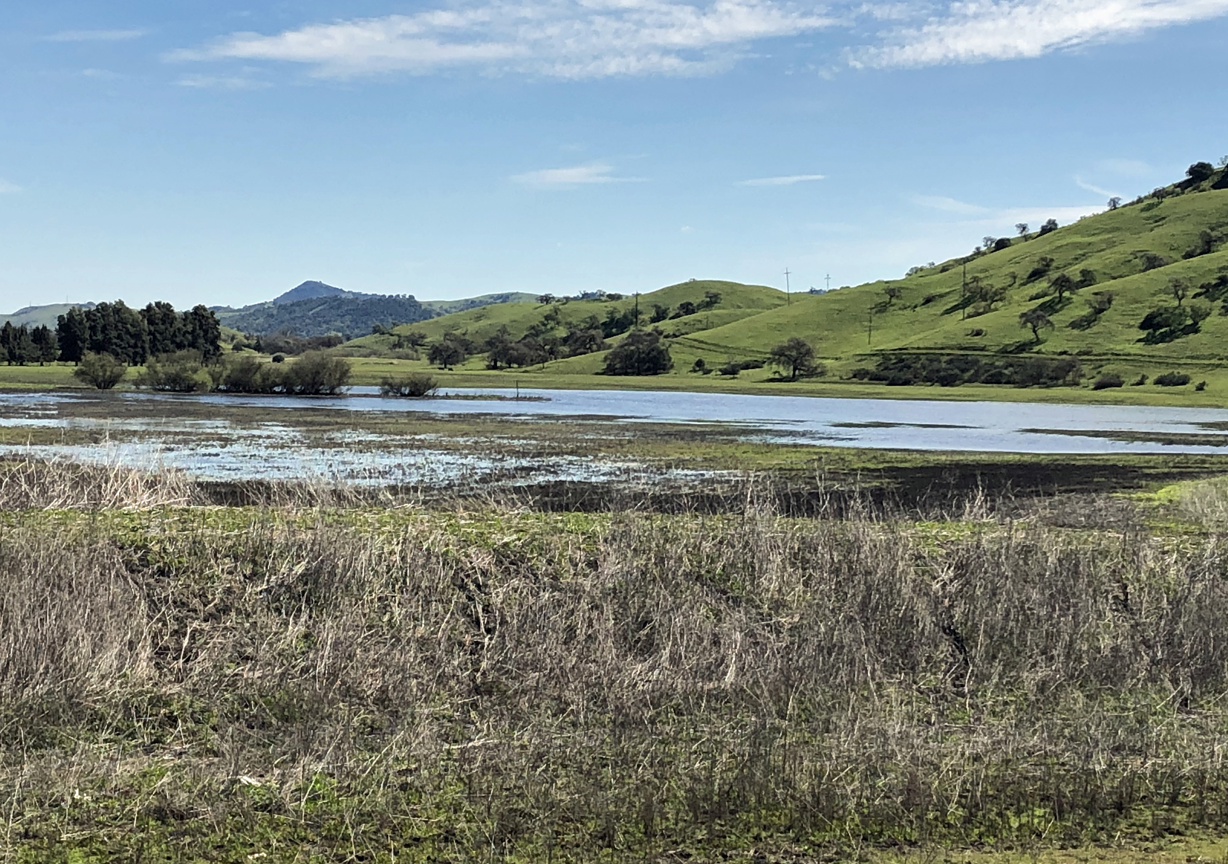 Photograph in February 2019 looking south from Santa Teresa Boulevard at the eastern end of the Santa Teresa Hills beyond Laguna Seca lake.